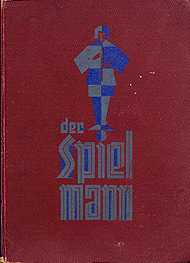 German Songbook "Der Spielmann" from 1930.